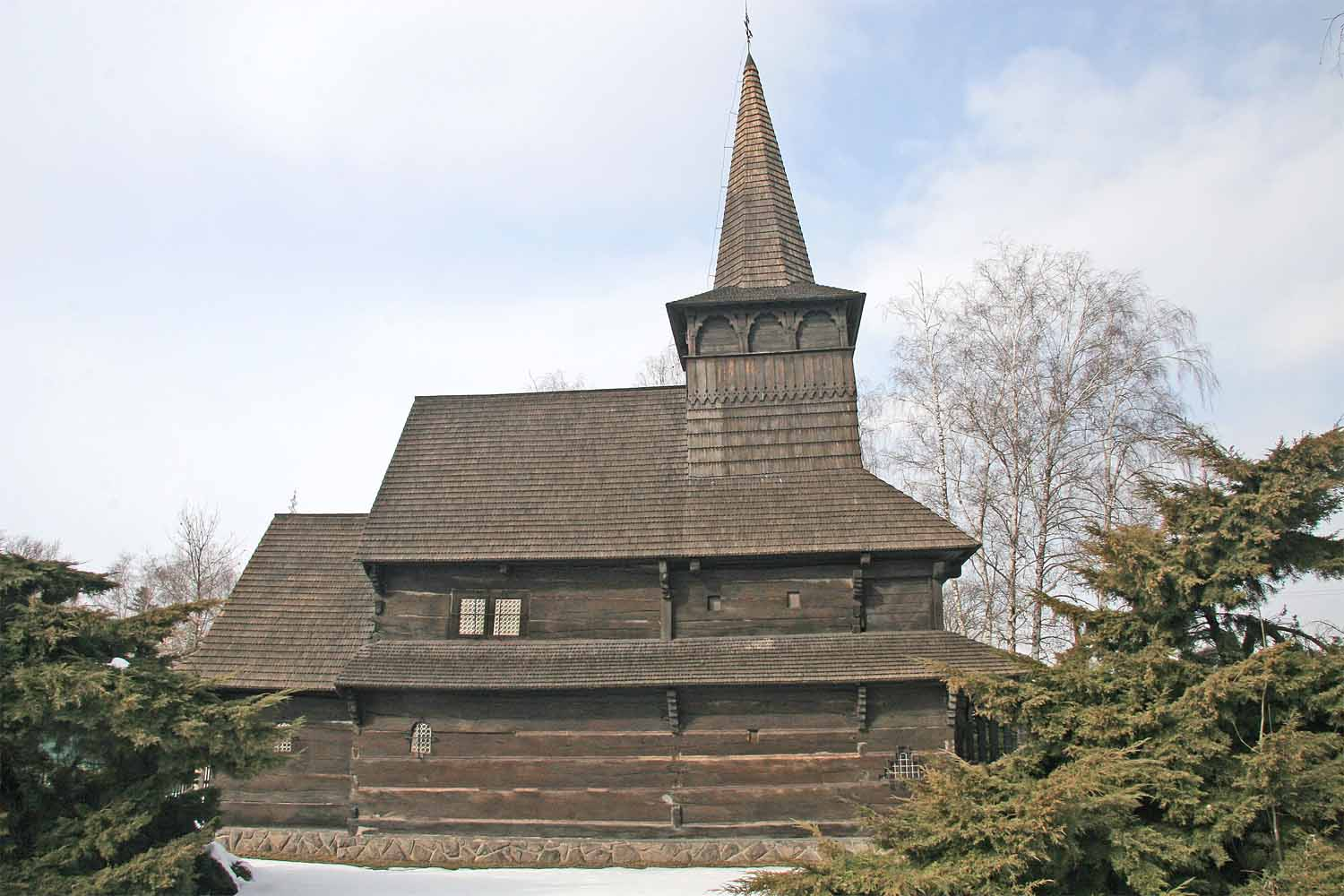 Wooden orthodox church from Subcarpathian Ruthenia, transferred to Dobříkov (today Czech Republic) in 1930.